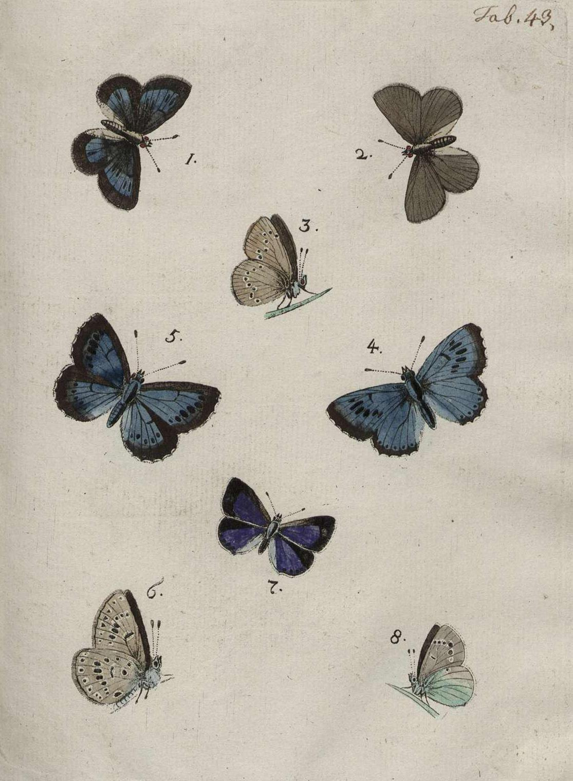 Plate XLIII from Bergsträsser's Nomenclatur und Beschreibung der Insecten in der Grafschaft Hanau. 1. Glaucopsyche nausithous 2., 3. Papilio nausithoe 5., 6. Glaucopsyche teleius 7., 8. Glaucopsyche dimus (Description pp. 70-71)